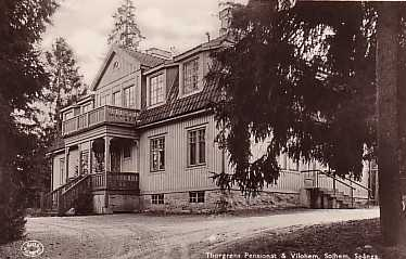 photos, sweden